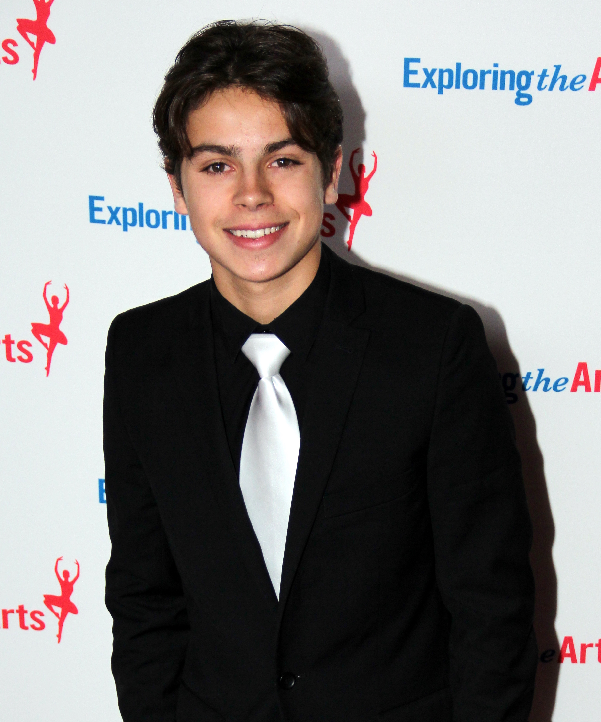 Jake T. Austin at the Tony Bennet Birthday Gala 2011.